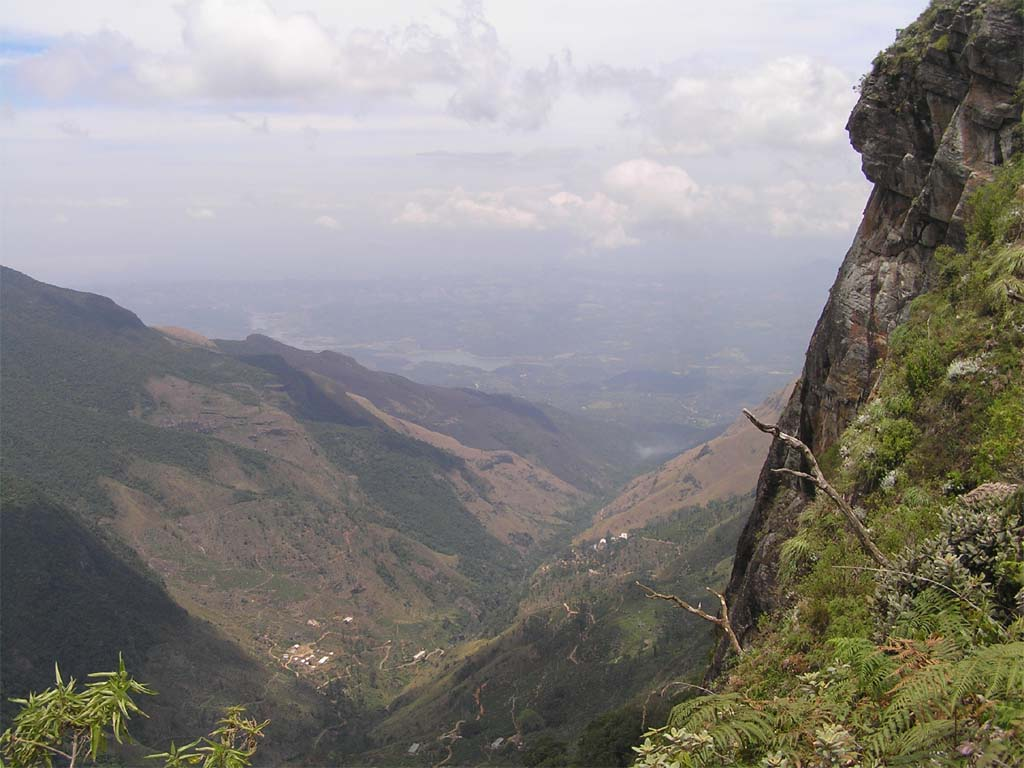 World's End, a sheer precipice within the park.